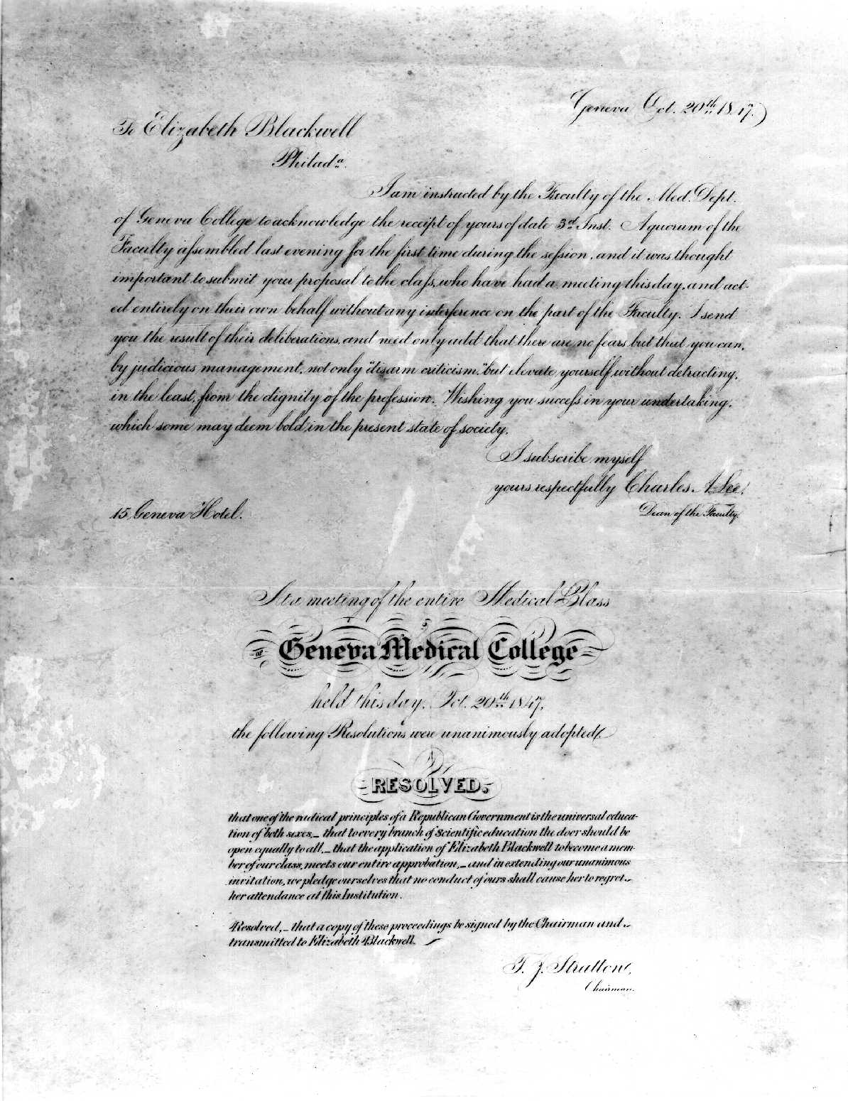 Official document of Elizabeth's Blackwell admission to Geneva Medical College